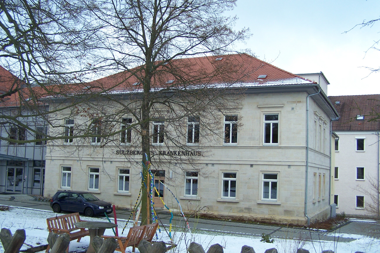 The Sulzberger hospital in Bad Salzungen.